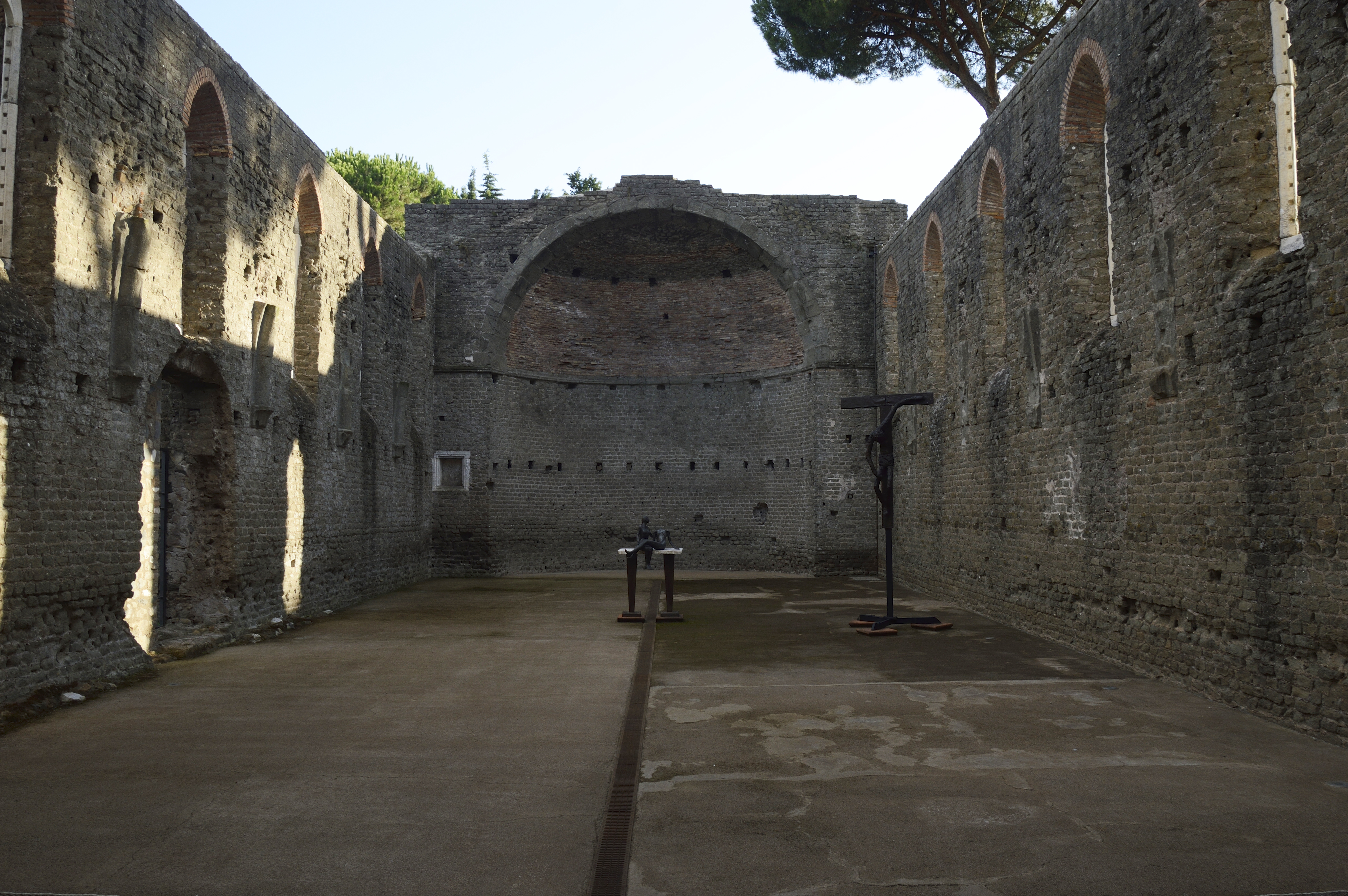 Chiesa di San Nicola a Capo di Bove interno